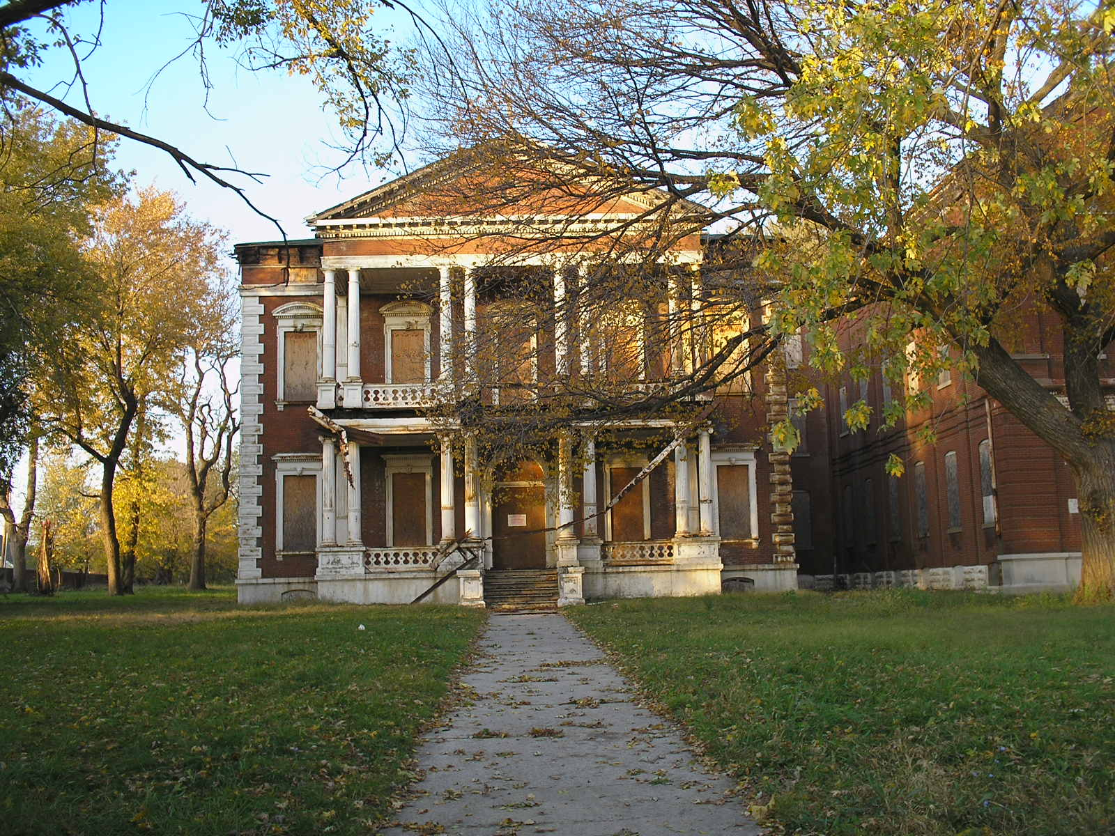 Clemens House-Columbia Brewery District, Roughly bounded by Maiden Lane, Cass Ave., 21st, Helen, and Howard Sts.; also roughly bounded by St. Louis Ave., N. Florissant Ave., Maiden Ln., and N. 21st and N. 20th Sts